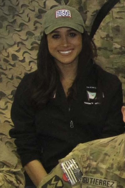 Country music artist Kellie Pickler, retired Chicago Bears middle linebacker Brian Urlacher, actress Dianna Agron, comedian Rob Riggle, actress Meghan Markle, Washington Nationals pitcher Doug Fister pose for a photograph with U.S. Military service members at Bagram Airfield, Afghanistan Dec. 9. The celebrities were in Afghanistan with Gen. Martin E. Dempsey, Chairman of the Joint Chiefs of Staff as part of the USO Holiday Troop Tour. (U.S. Army Photo by Sgt. Adam Erlewein, 4RSSB Public Affairs.)(Released)